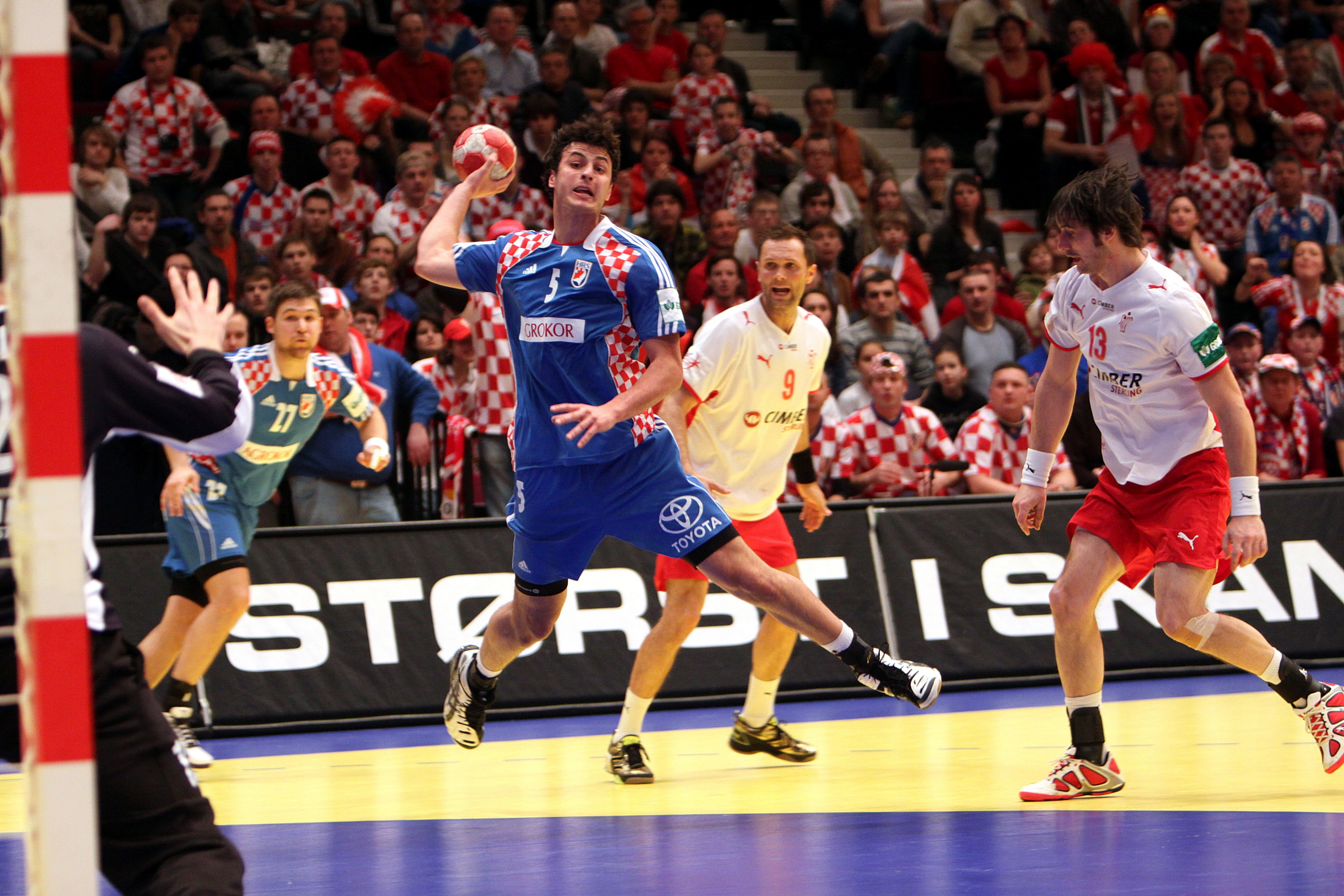 2010 European Men's Handball Championship Group I: Croatia vs Denmark 27:23 — Domagoj Duvnjak (Croatia national handball team) scores. Lars Christiansen (9) and Bo Spellerberg (Denmark national handball team) are too late. In the background Ivan Čupić